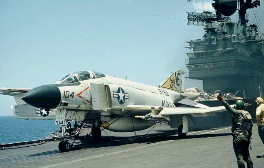 A U.S. Navy McDonnell Douglas F-4J Phantom II (BuNo 155752) from fighter squadron VF-21 Free Lancers shortly before launching from the aircraft carrier USS Ranger (CVA-61). VF-21 was assigned to Attack Carrier Air Wing 2 (CVW-2) aboard the Ranger for a deployment to Vietnam from 27 October 1970 to 17 June 1971.